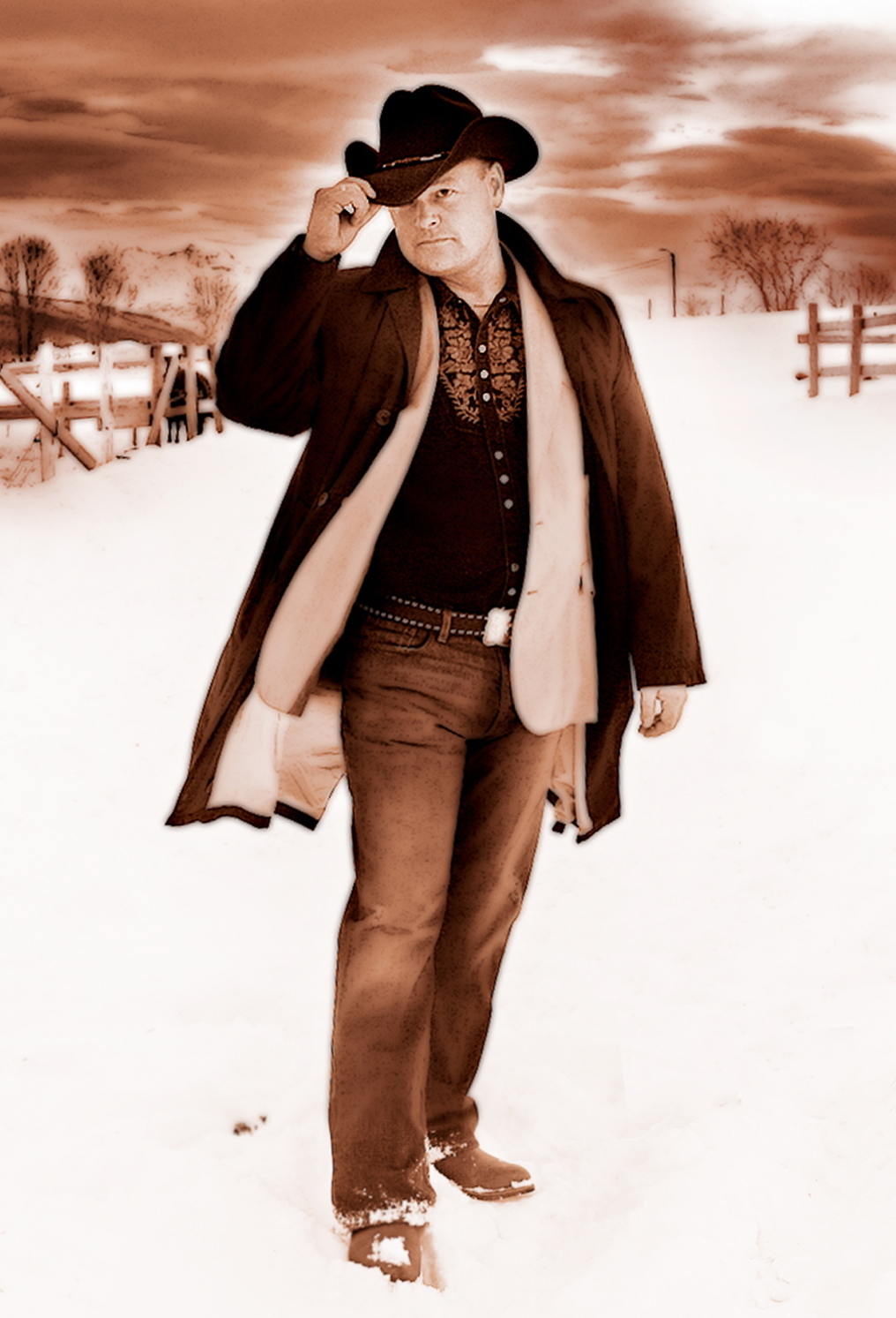 Bengt Pedersen Norwegian countrymusician